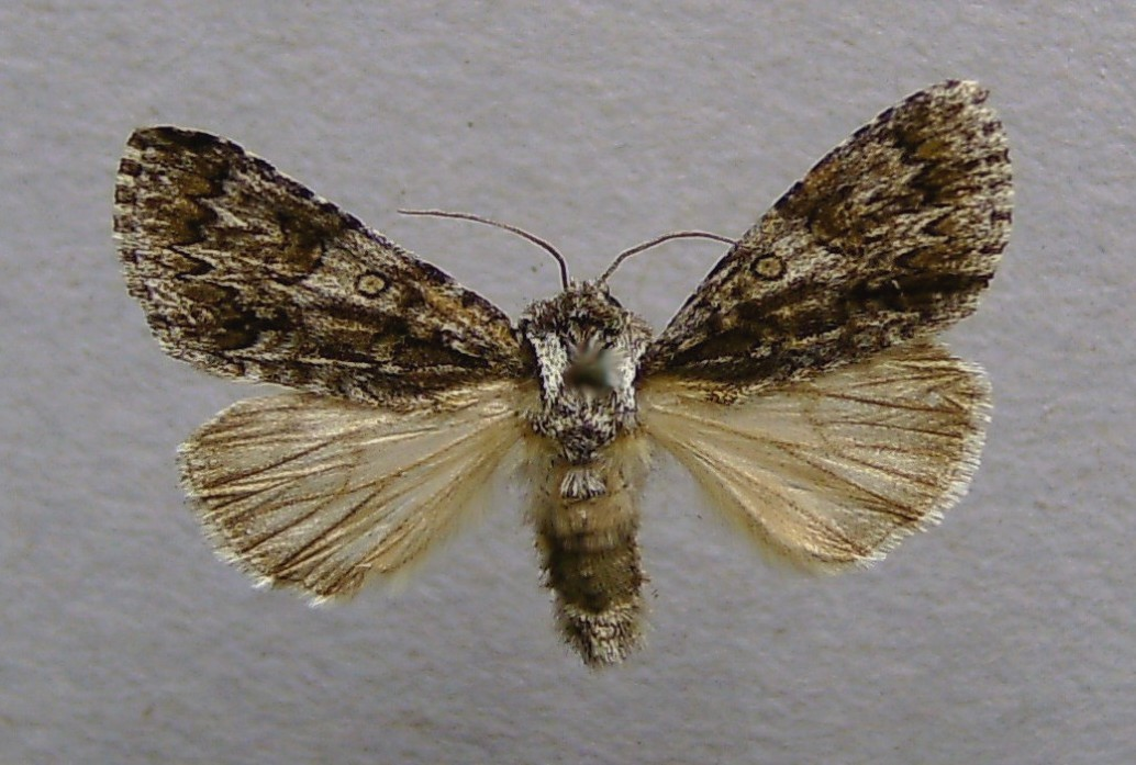 Acronicta auricoma